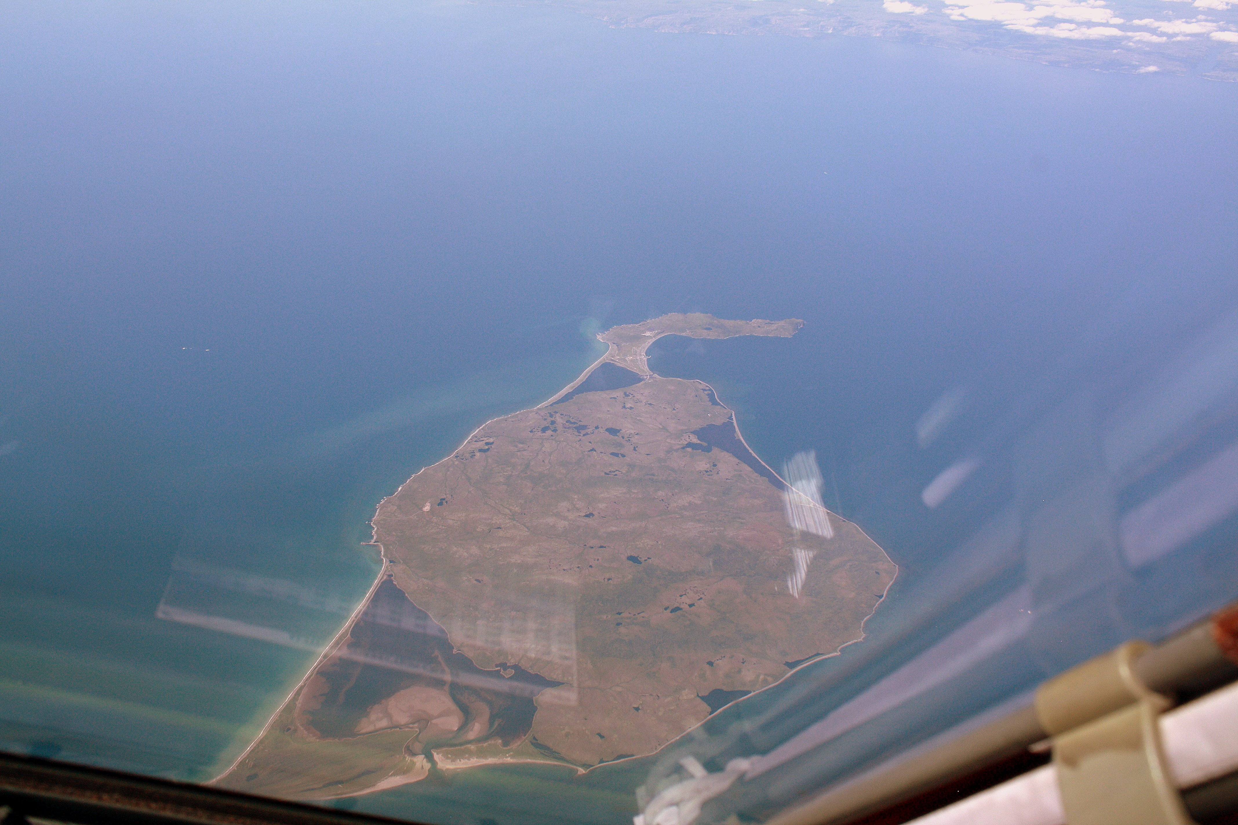 1/2 the French colony of St Pierre et Miquelon. Though this is the larger island, the majority of the population is on the Island of St Pierre.